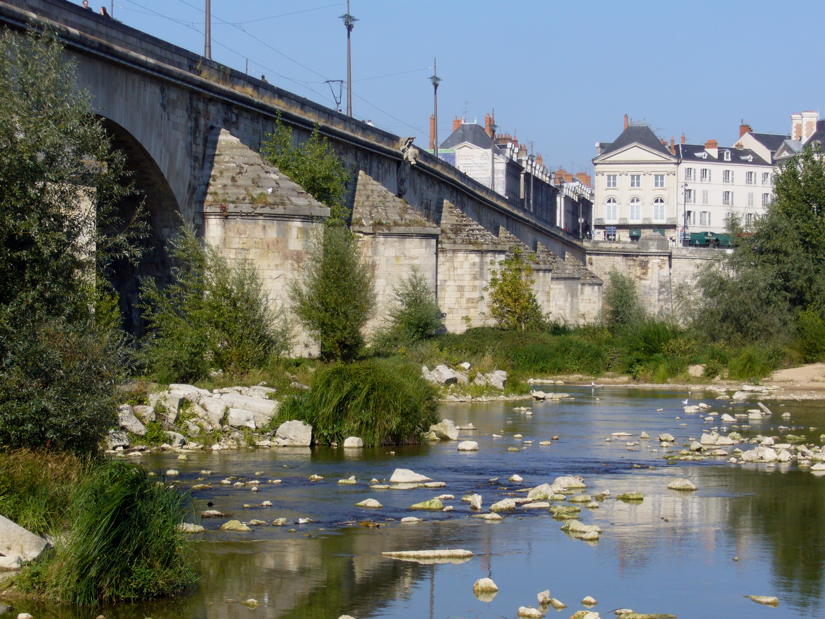 George V Bridge, Orléans, Loiret, France